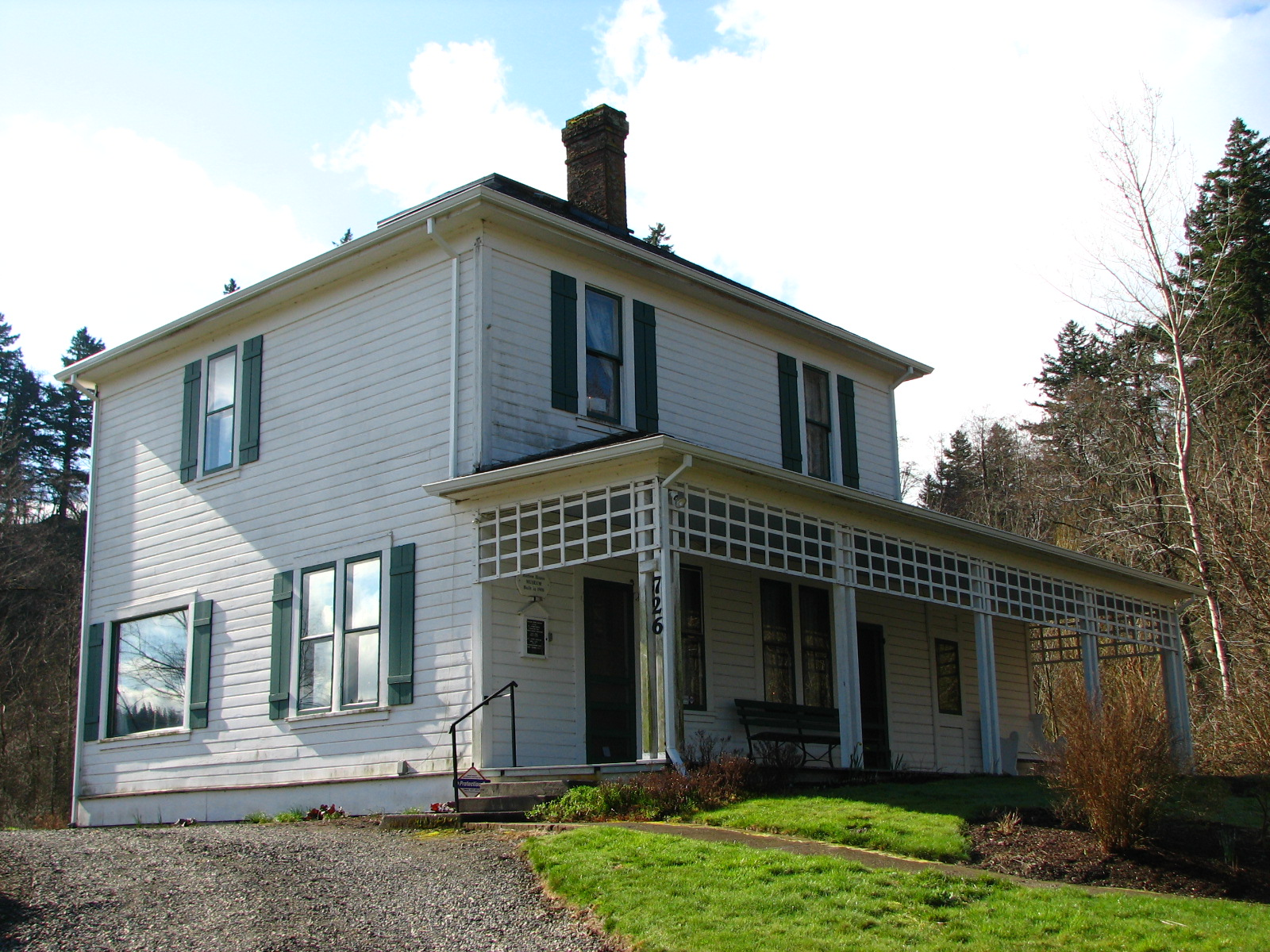 The Fred Harlow House at 726 East Columbia River Highway in Troutdale, Oregon, United States, is listed on the US National Register of Historic Places. It is currently in use by the Troutdale Historical Society as a local historical museum.